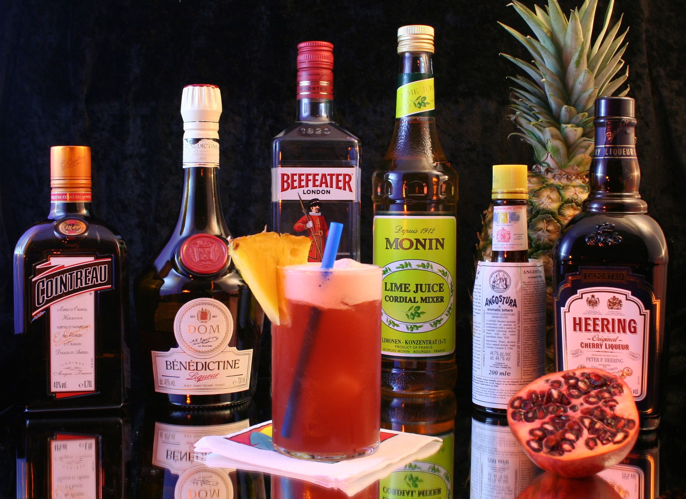 Singapore Sling Cocktail with typical ingredients.